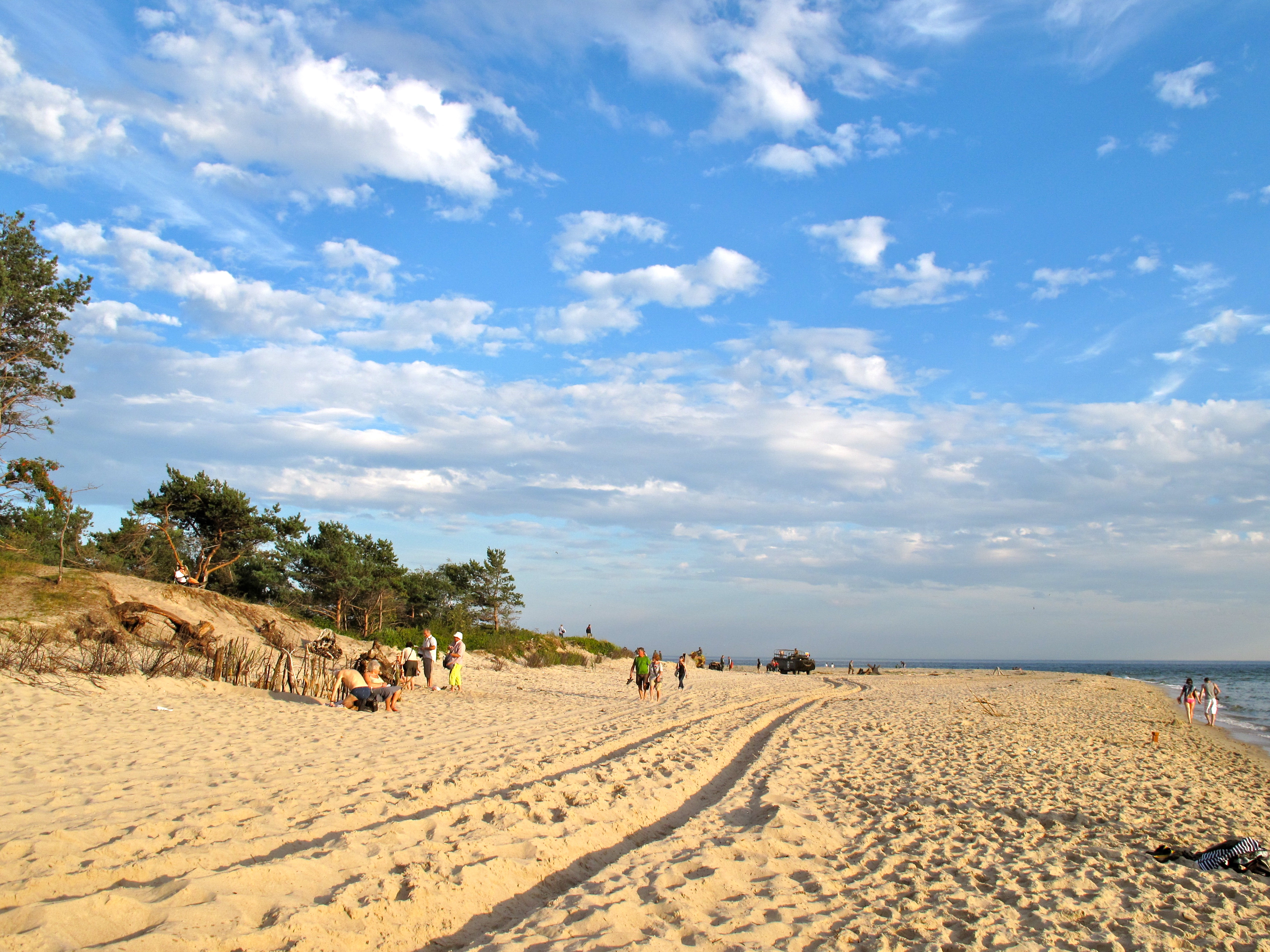 The beach at the tip of the peninsula Hel in Poland at the Baltic Sea.